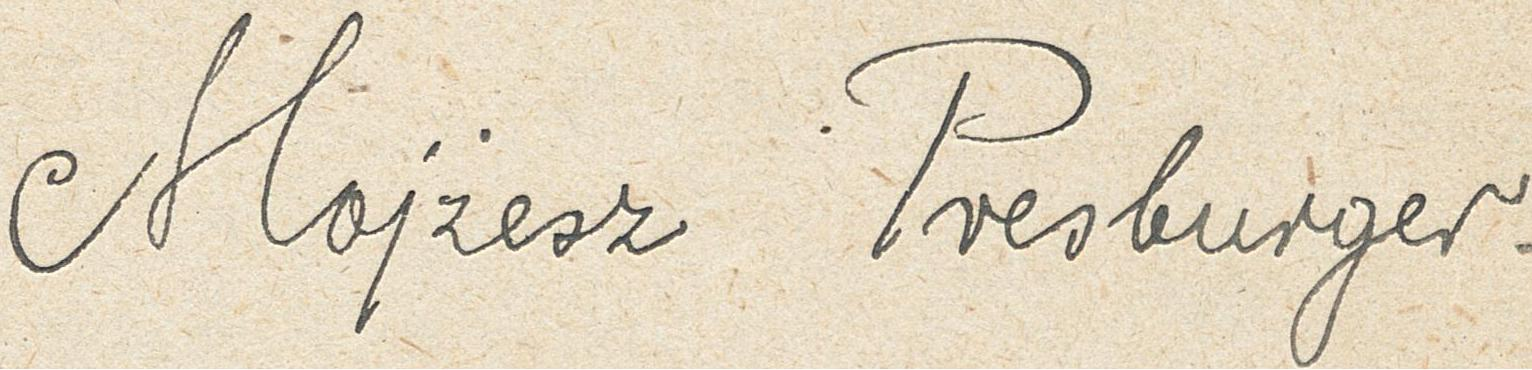 signature of Mojżesz Presburger, from his CV.